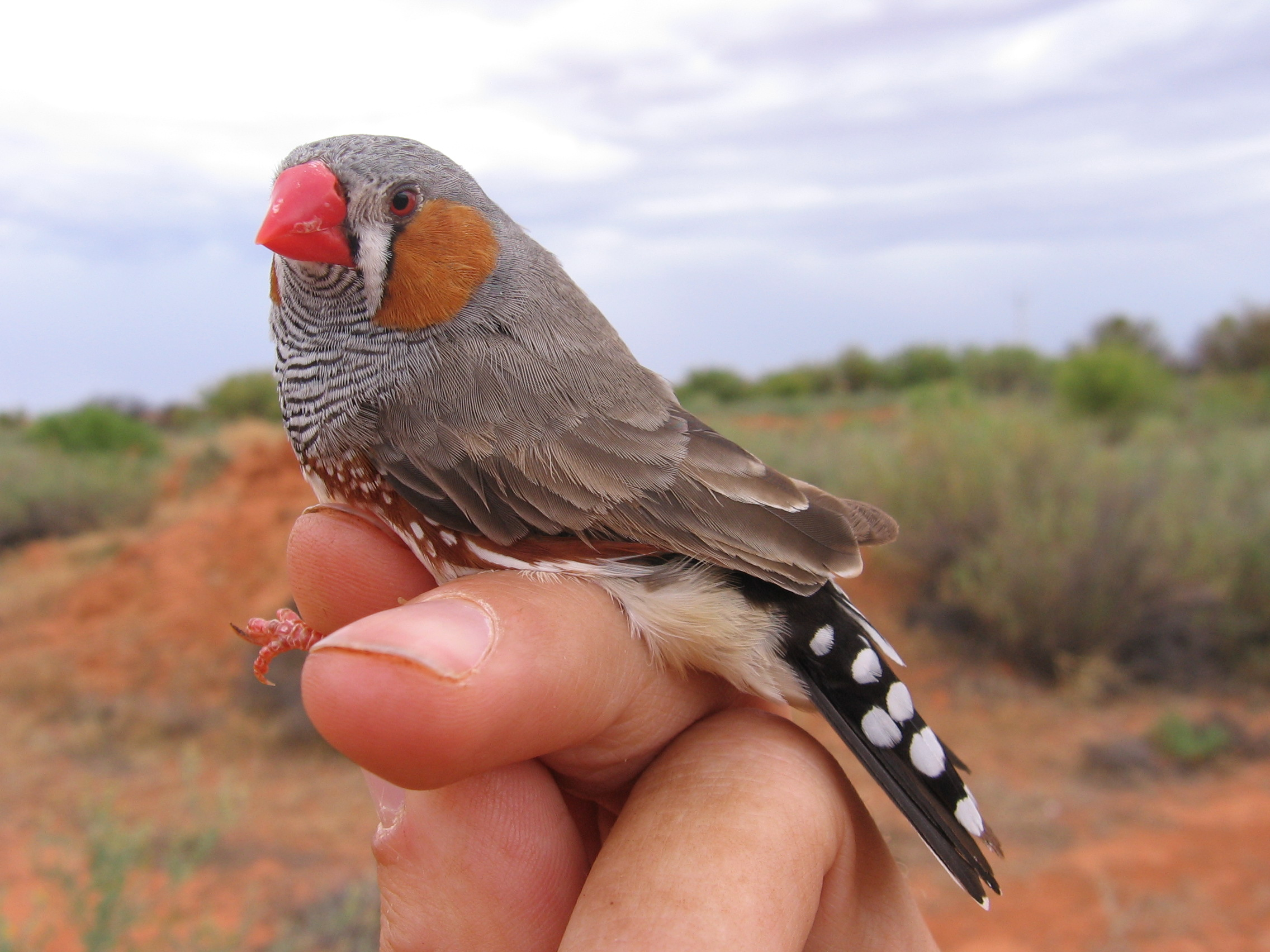 Male Zebra Finch, Broken Hill, Australia